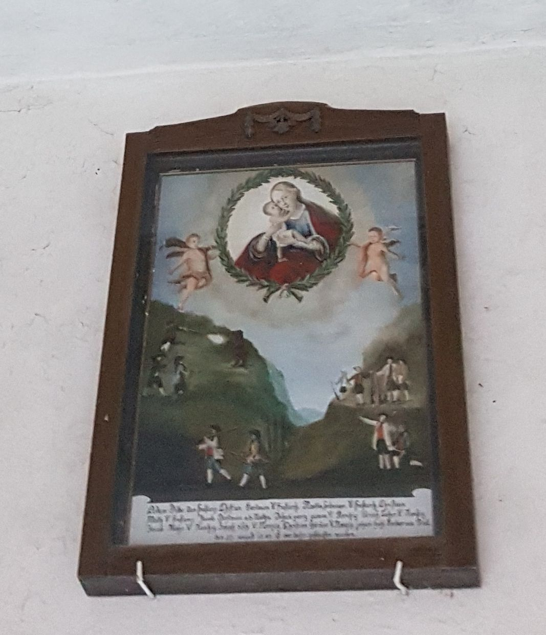 Pilgrimage chapel Kuehbruck (Our Lady of the Rosary) in the municipality of Nenzing, Vorarlberg, Austria. Built in 1806. Painting in the anteroom